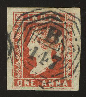 An example of the British East India Company's one anna 1854 Die I stamp used in Penang - SGZ21